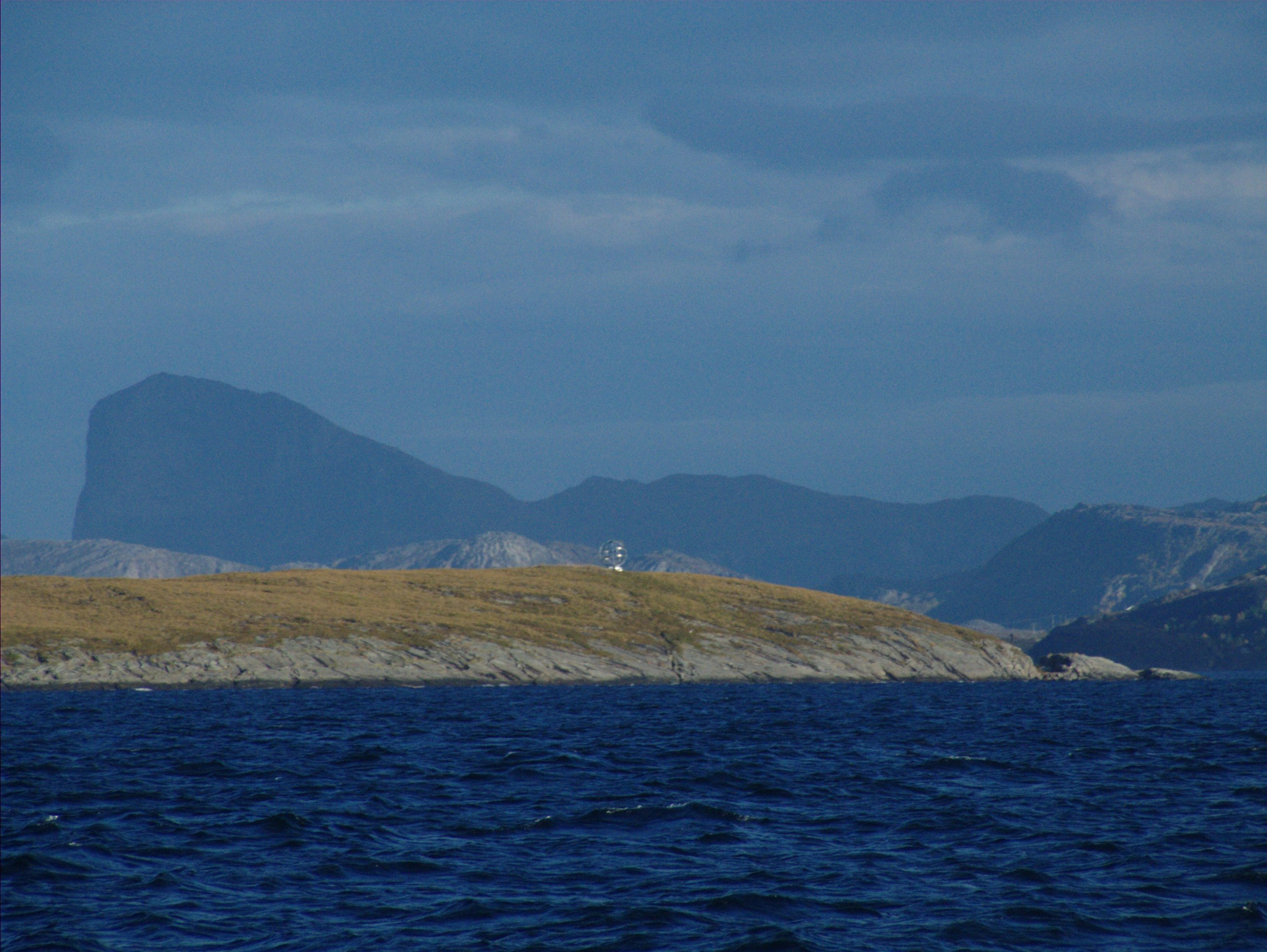 Globe marking the Arctic Circle in Norway on an island Vikingen at Kvarøyfjorden